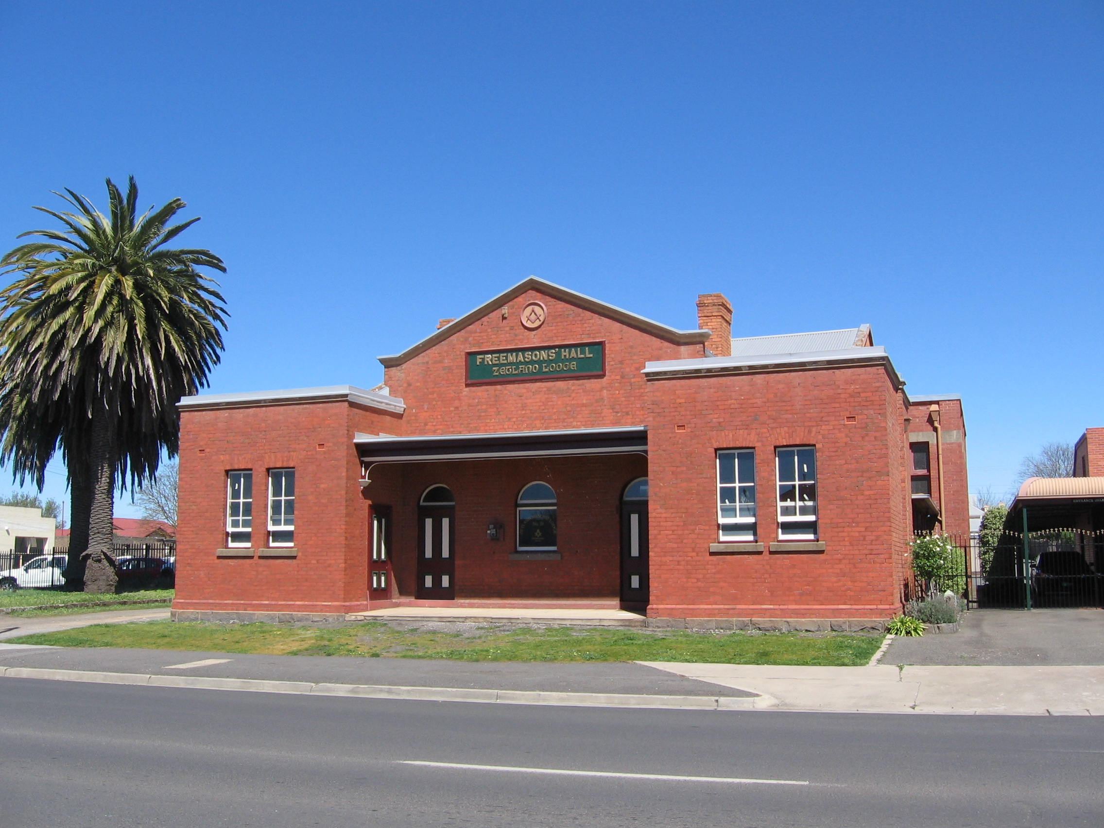 Masonic lodge at Kyneton, Victoria